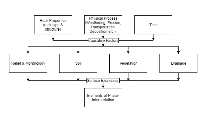 A flowchart showing the factors leading to photo interpretation